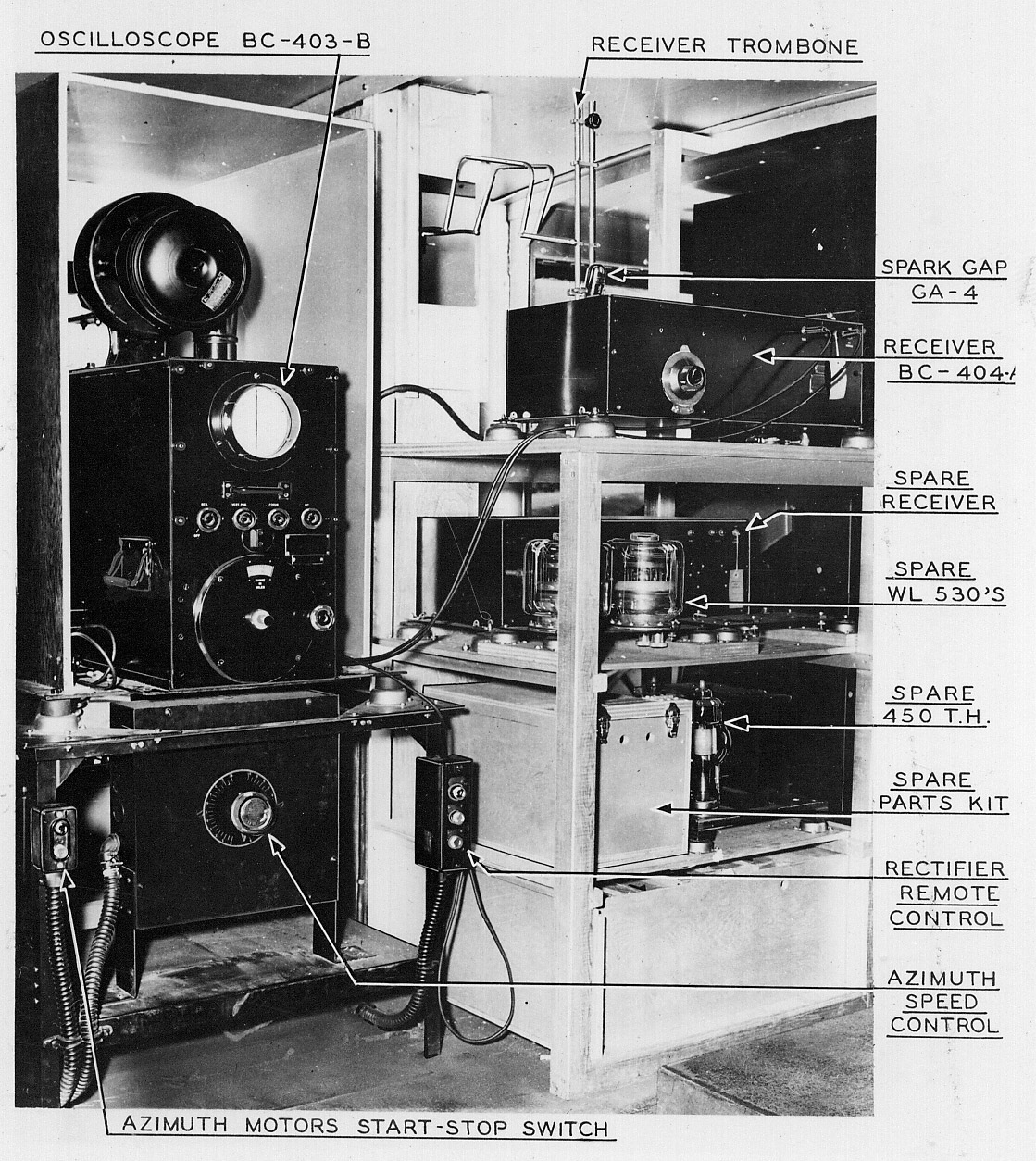 Original Caption: Parts of an early SCR-270 installed in a K-30 truck. This is the same equipment used by an SCR-270 unit located at Opana point that detected the Pearl Harbor attacking planes 55 minutes prior to the attack. alteration- this version has a border cropped which credits the photo to Lieutenant Zahl. Original at the above location. This photo is credited to First Lieutenant Harold Zahl, who pioneered Radar use by the Army air corps. The photo appears in a paper by him from the period. these photos would not have been saved were it not for Dr. Howard W. Andrews, who had the foresight to preserve them along with Lieutenant (Dr.) Zahl's papers for posterity. Credit and thanks to H.W. Andrews for preseving these photos.